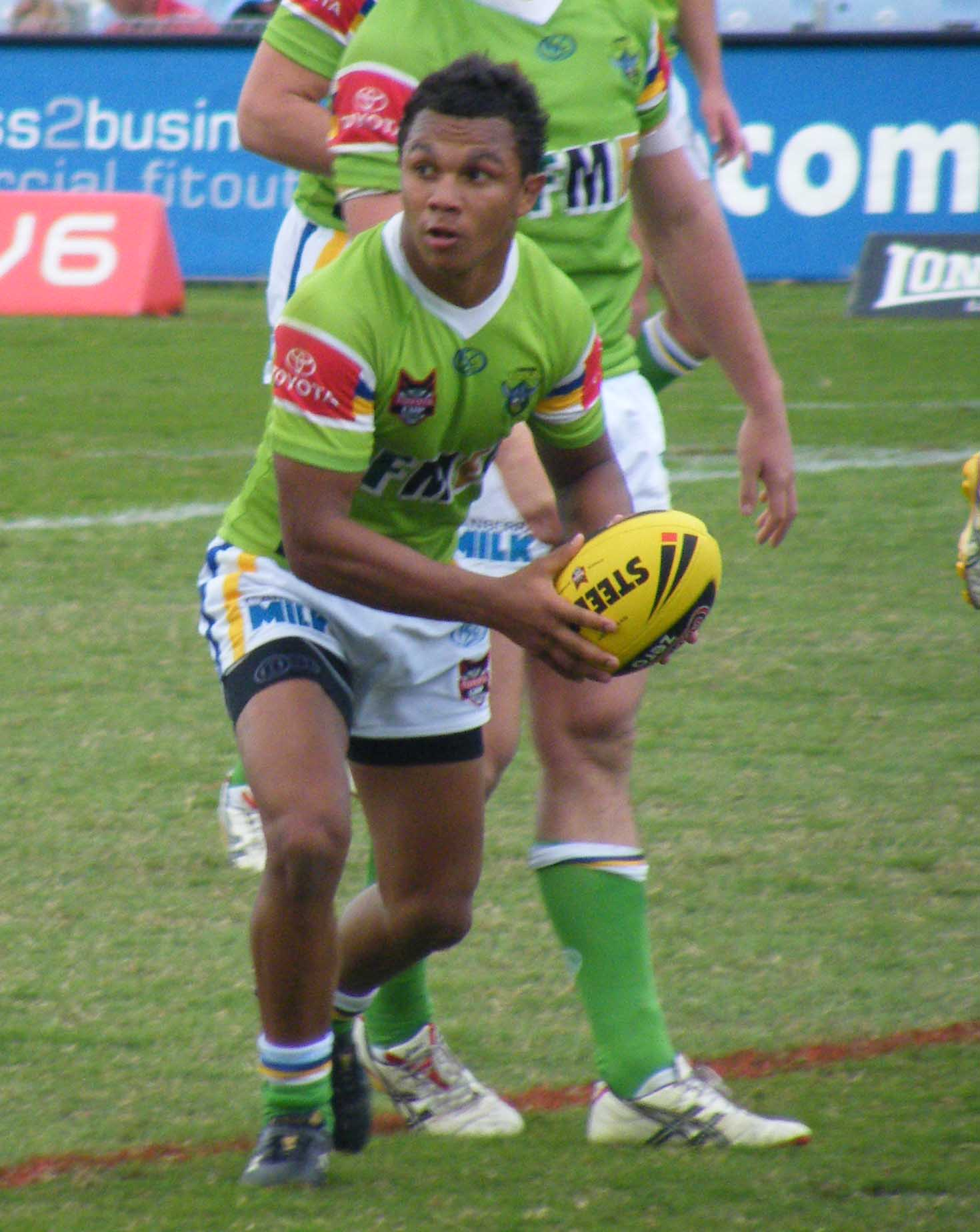 Travis Waddell of Canberra RLFC